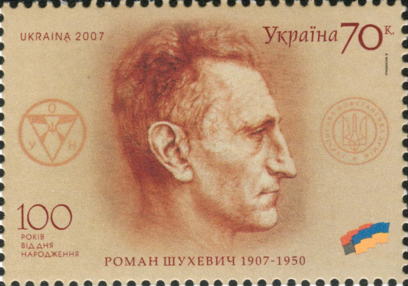 Ukrainian postage stamp 2007 of Roman Shukhevych